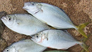 Taken from Palau